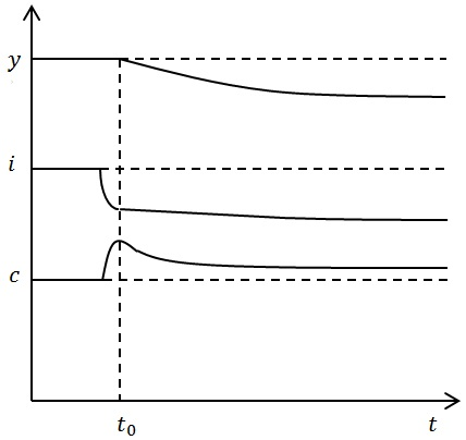 Solow model, transition to the Golden rule, path 1